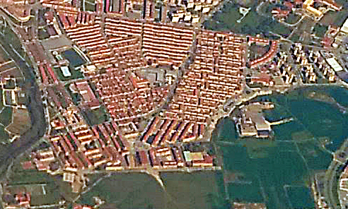 Txantrea, Iruñea. Navarre, Basque Country